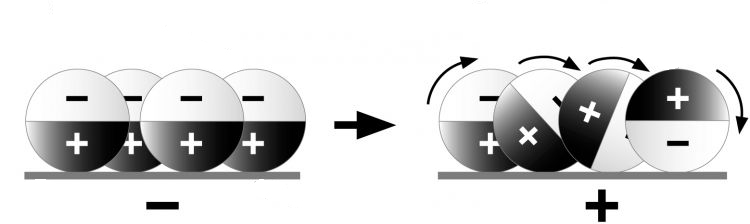 Gyricon balls